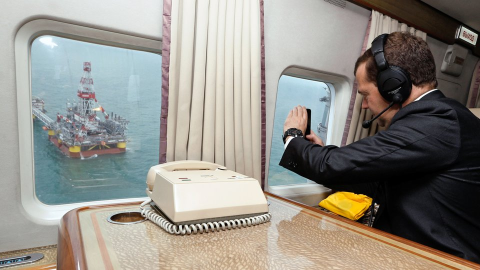 An aerial view of the fixed offshore ice-resistant platform IRP-1 at the Yuri Korchagin oil field in the Caspian Sea 180 kilometres (110 mi) from Astrakhan, Russia.